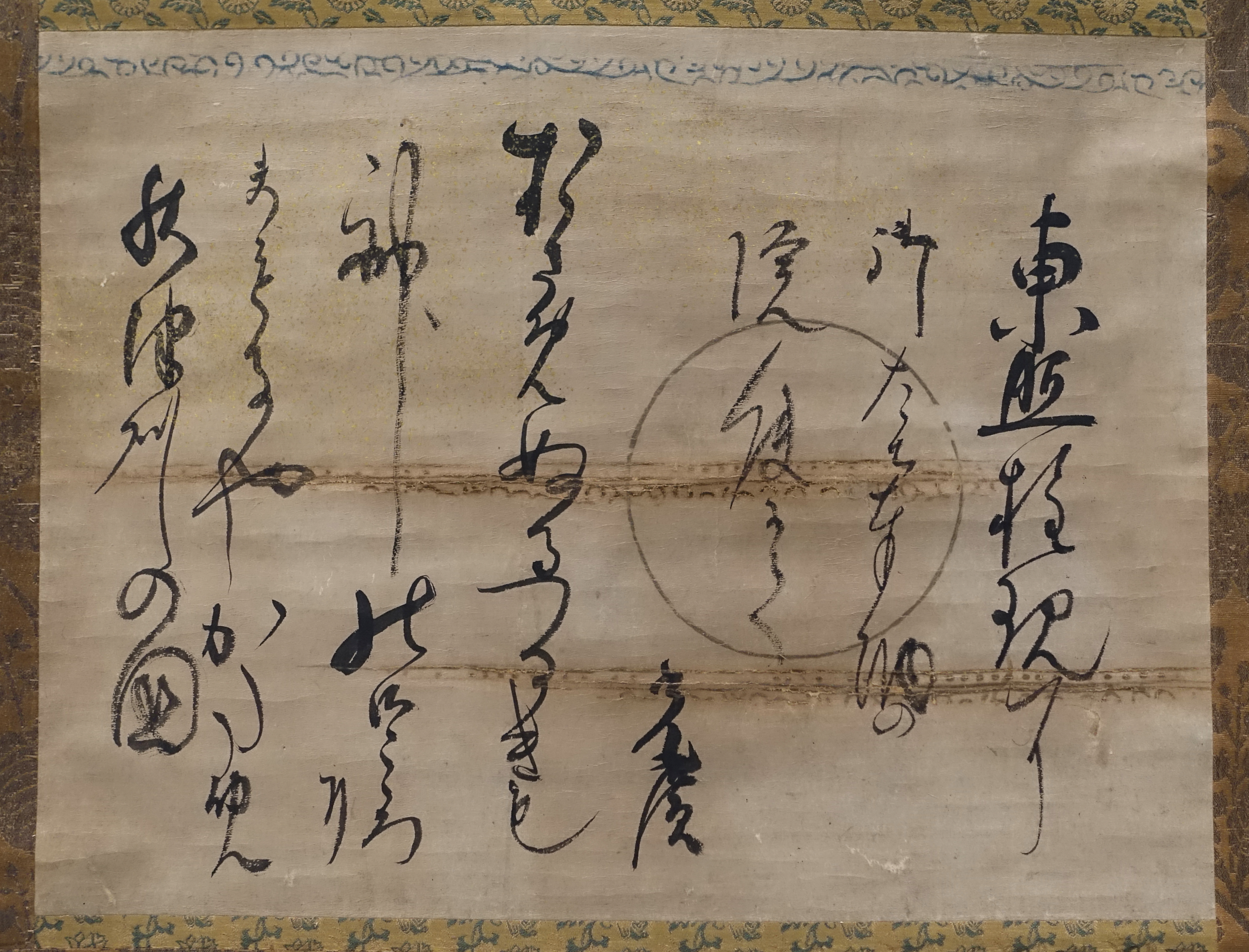 Exhibit in the Ishikawa Prefectural Museum of Traditional Arts and Crafts - Kanazawa, Japan.